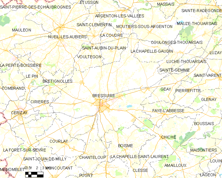 Map of French municipality Bressuire